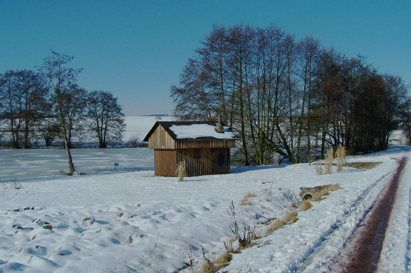 Ice on the lake Michaelsteich near Witzelroda.